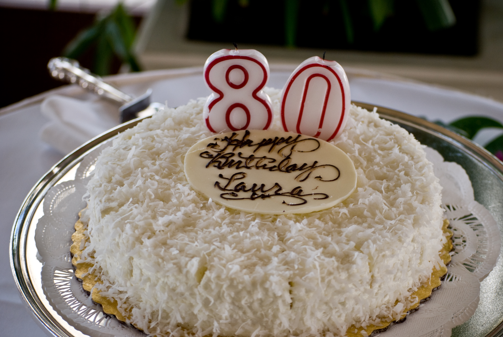 80th Anniversary birthday cake